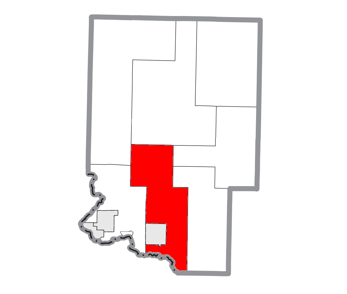 Norway Township, MI